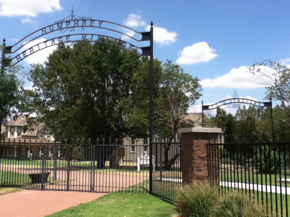 Gates to Humphrey Heritage Village and old Enid Cemetery gate.